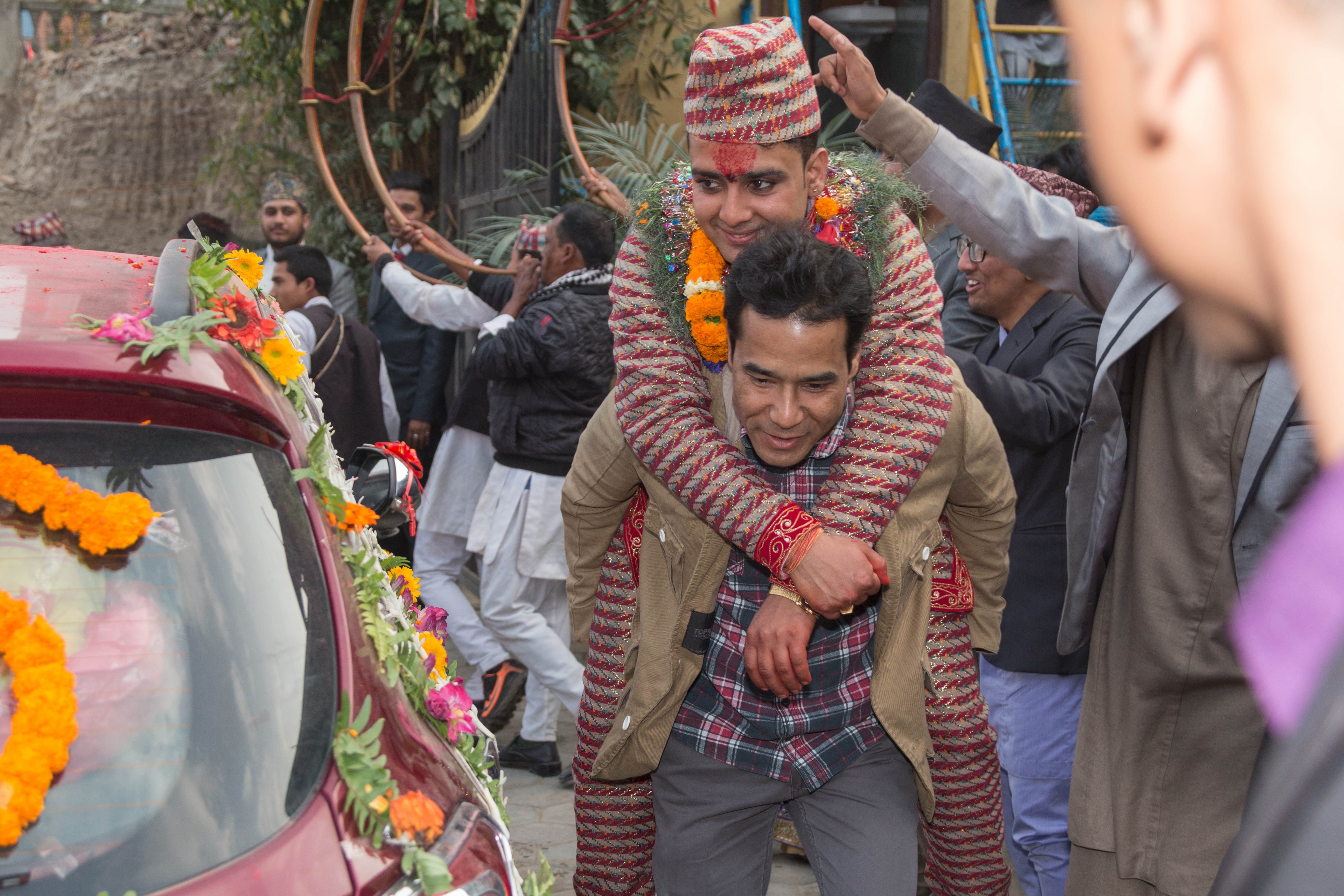 Hindu cultural marriage ceremony and its process.